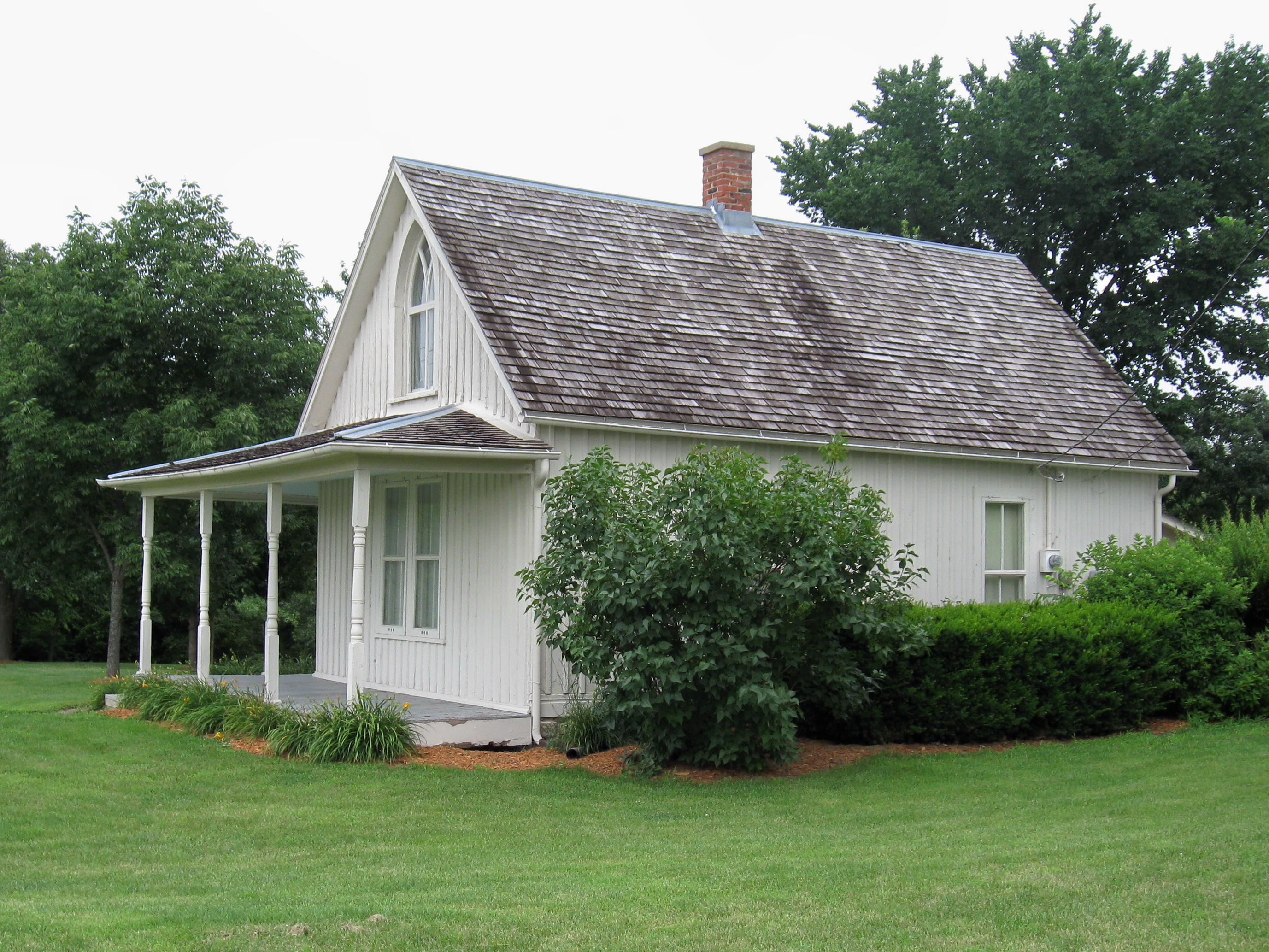 The American Gothic House in Eldon, Iowa, seen from the side.